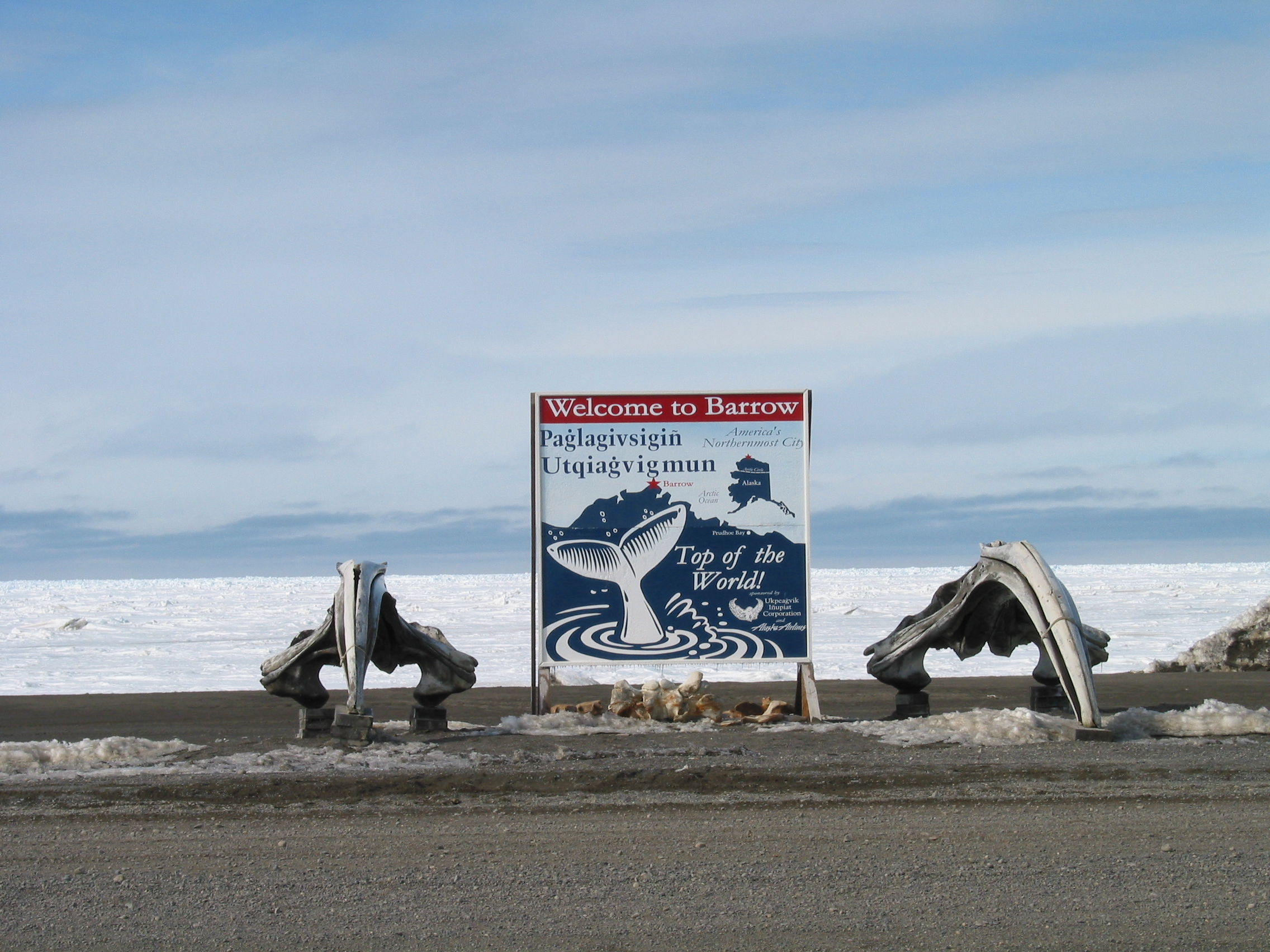 The traditional welcome sign at Barrow, Alaska. Notice the two whale jawbones. The body of the sign is written in Iñupiaq (Eskimo).